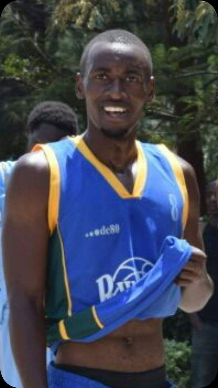 A Smile of Kazingufu Ali Kubwimana after scores a free throw three point in match against KBC in 2014